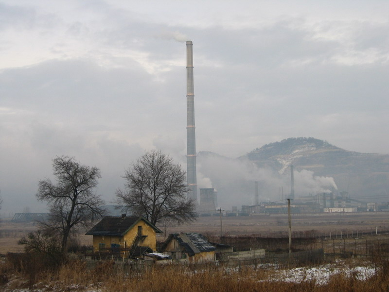 Made by me, December 2005.